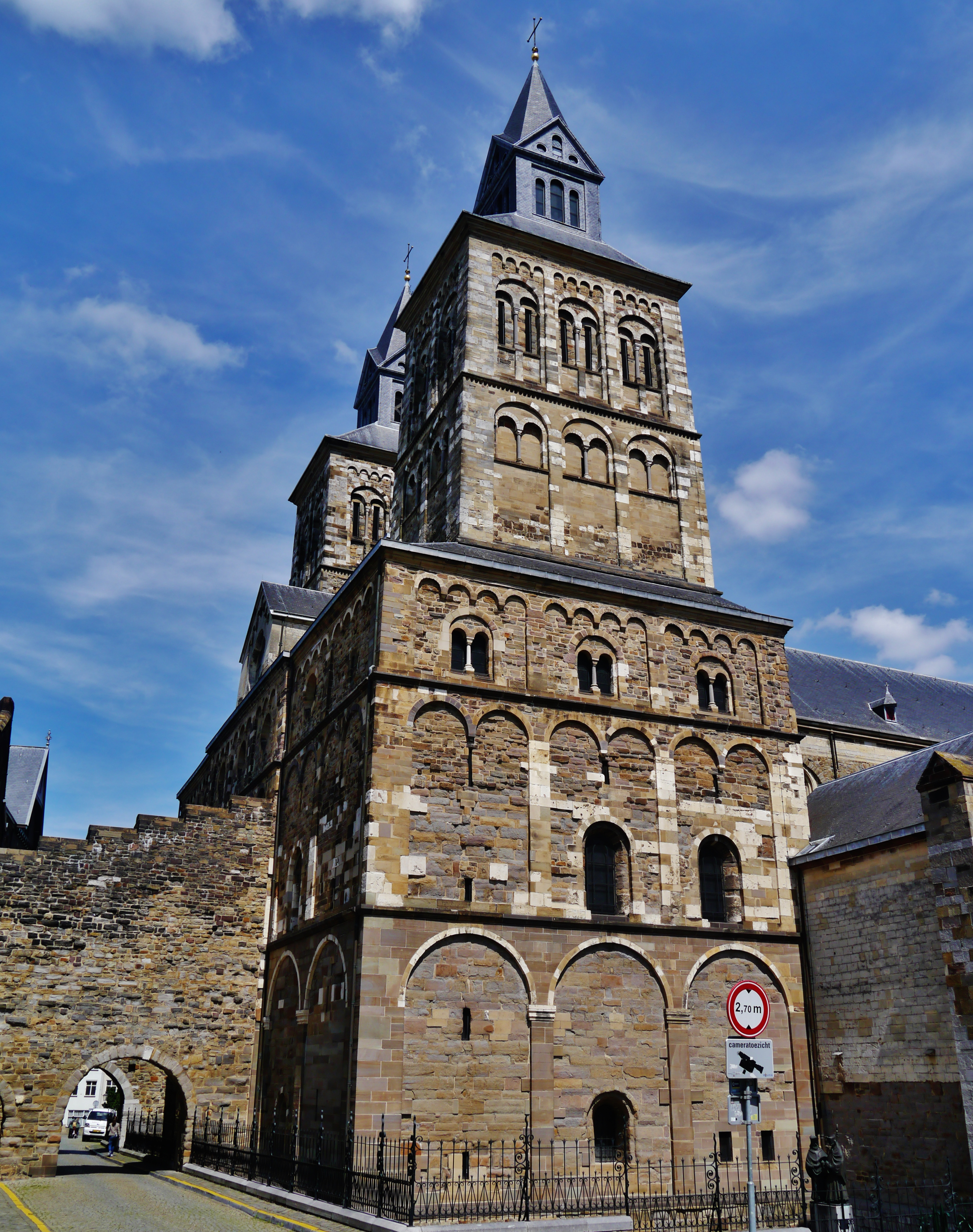 Basilica St. Servatius, Maastricht, Province of Limburg, Netherlands